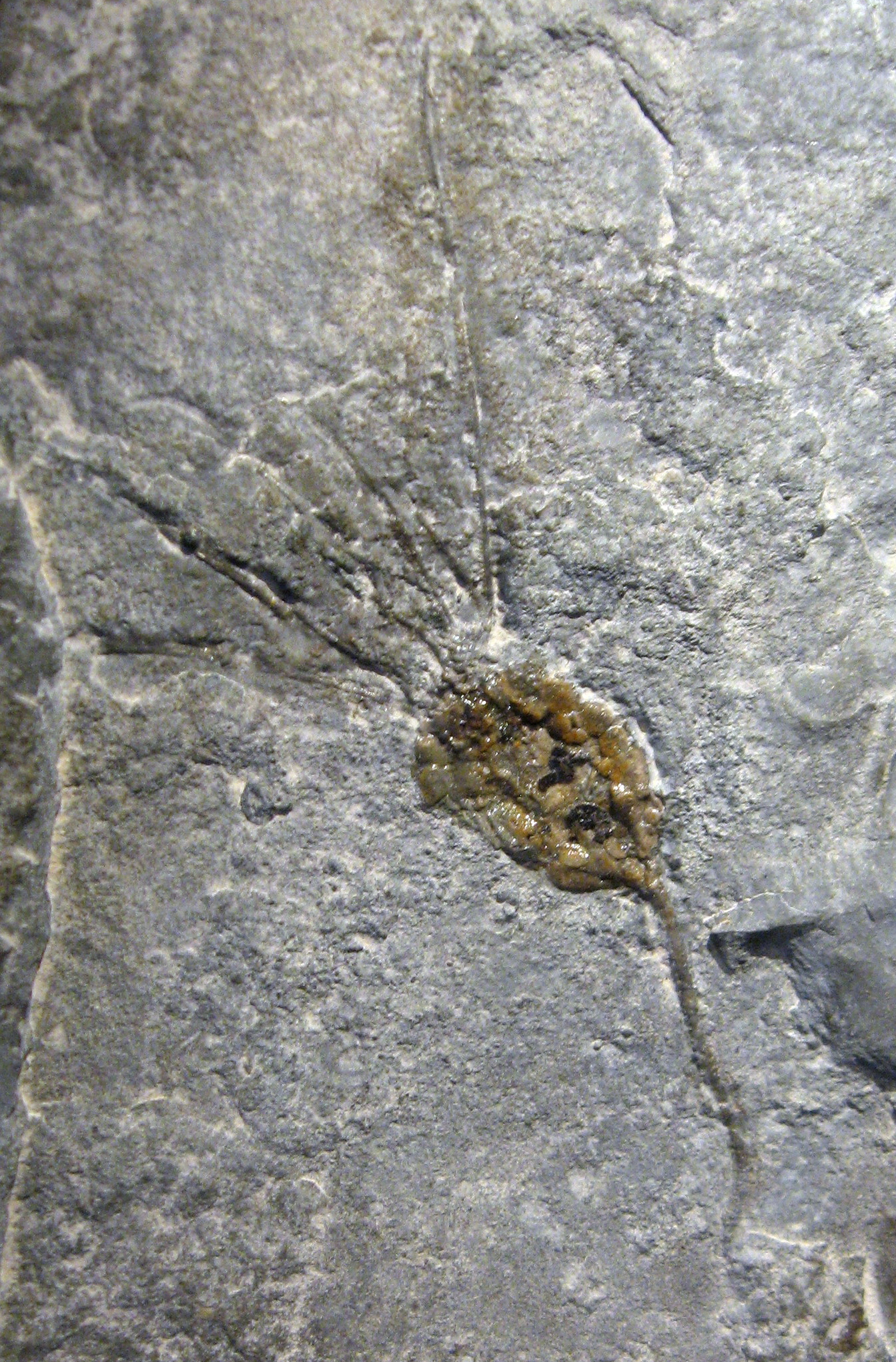 Single specimen of Gogia kitchnerensis from the Spence Shale, Antimony Canyon, Utah, USA ~520 million years old. ~4cm long. Photographed at Dinoday 2009.